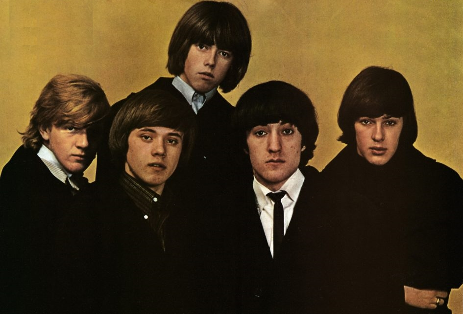 The Swedish rock group Tages in 1965, left to right: Ander Töpel (lead guitar), Danne Larsson (rhythm guitar, vocals), Göran Lagerberg (bass guitar, vocals), Freddie Skantze (drums) and Tommy Blom (occasional guitar, vocals)